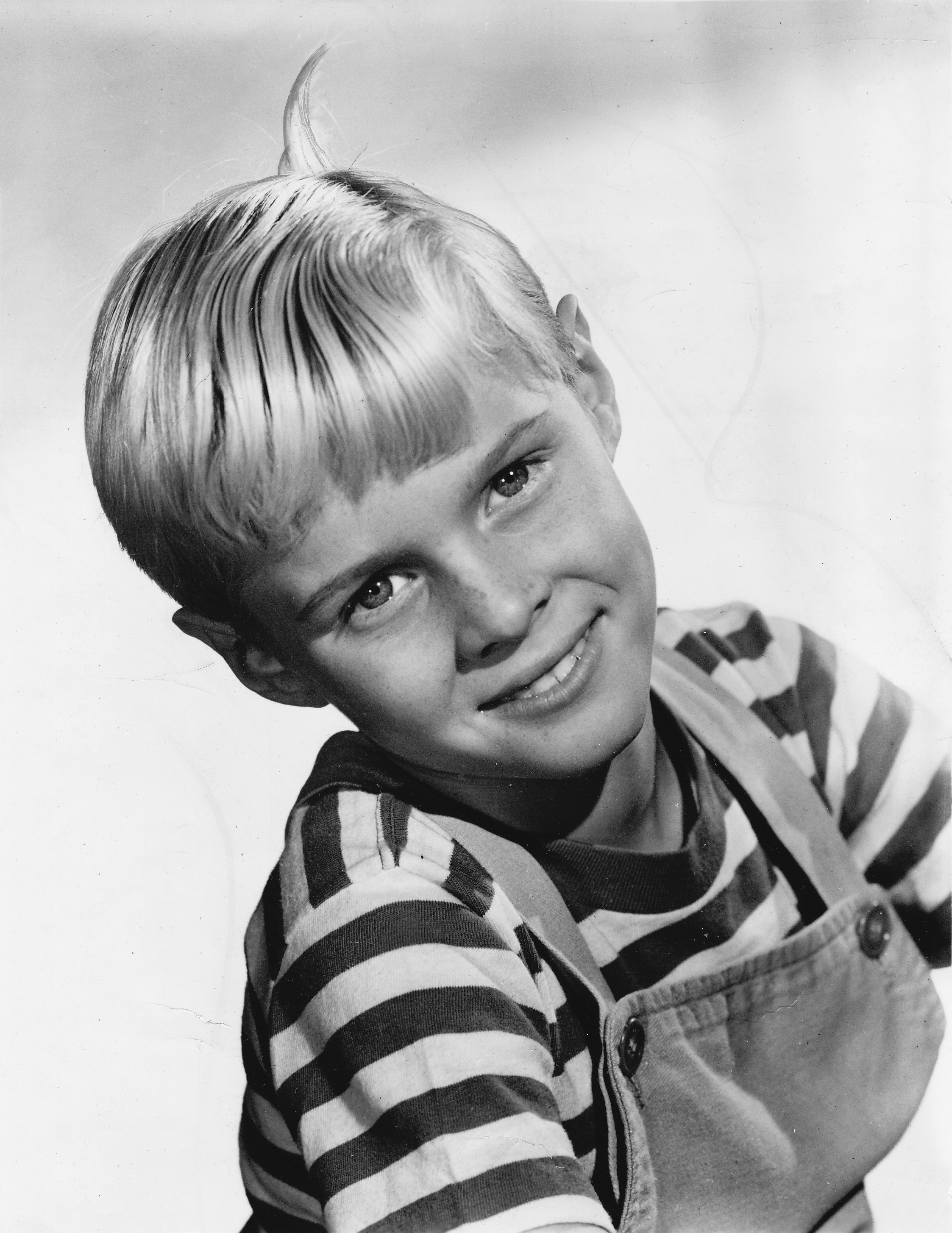 Publicity photo of child actor Jay North promoting his starring role on the television comedy series Dennis the Menace.